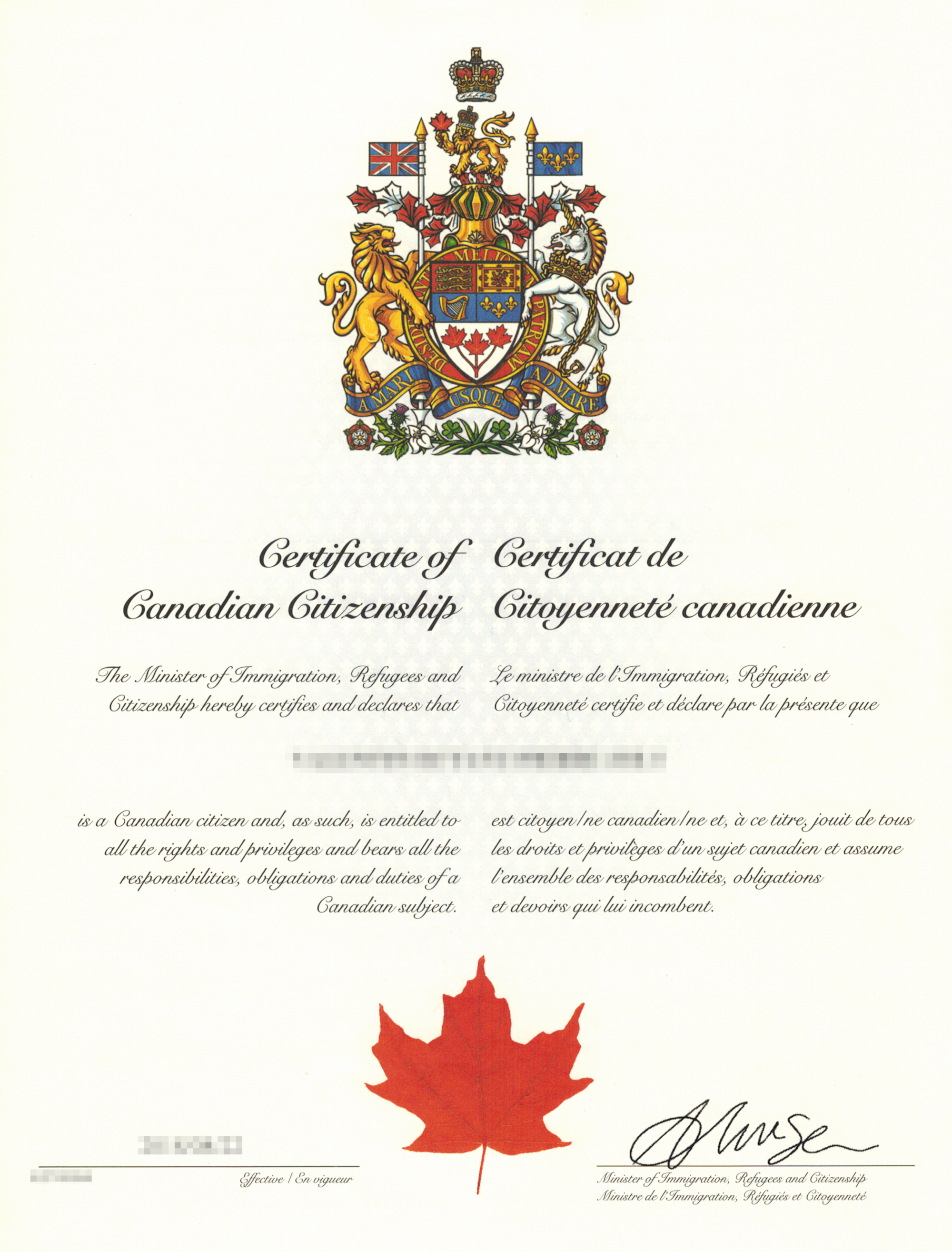 Scanned image of a certificate of Canadian citizenship emitted in 2018 by Immigration, Refugees and Citizenship Canada